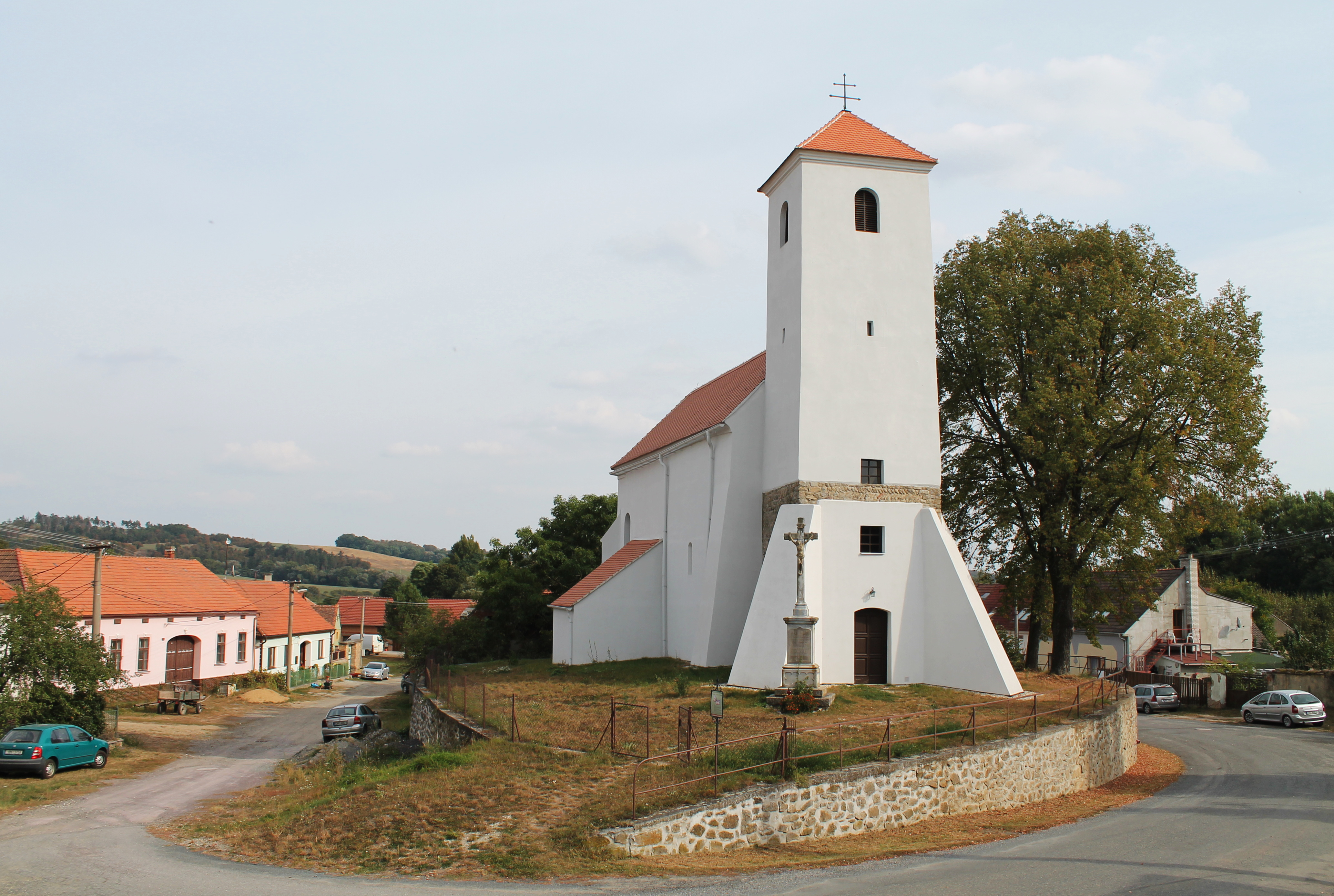 Church of Saint James the Greater, Černín, Znojmo District, Czech Republic This photograph was taken during a group photography field trip by Brno Wikipedians: 2016-09-28.